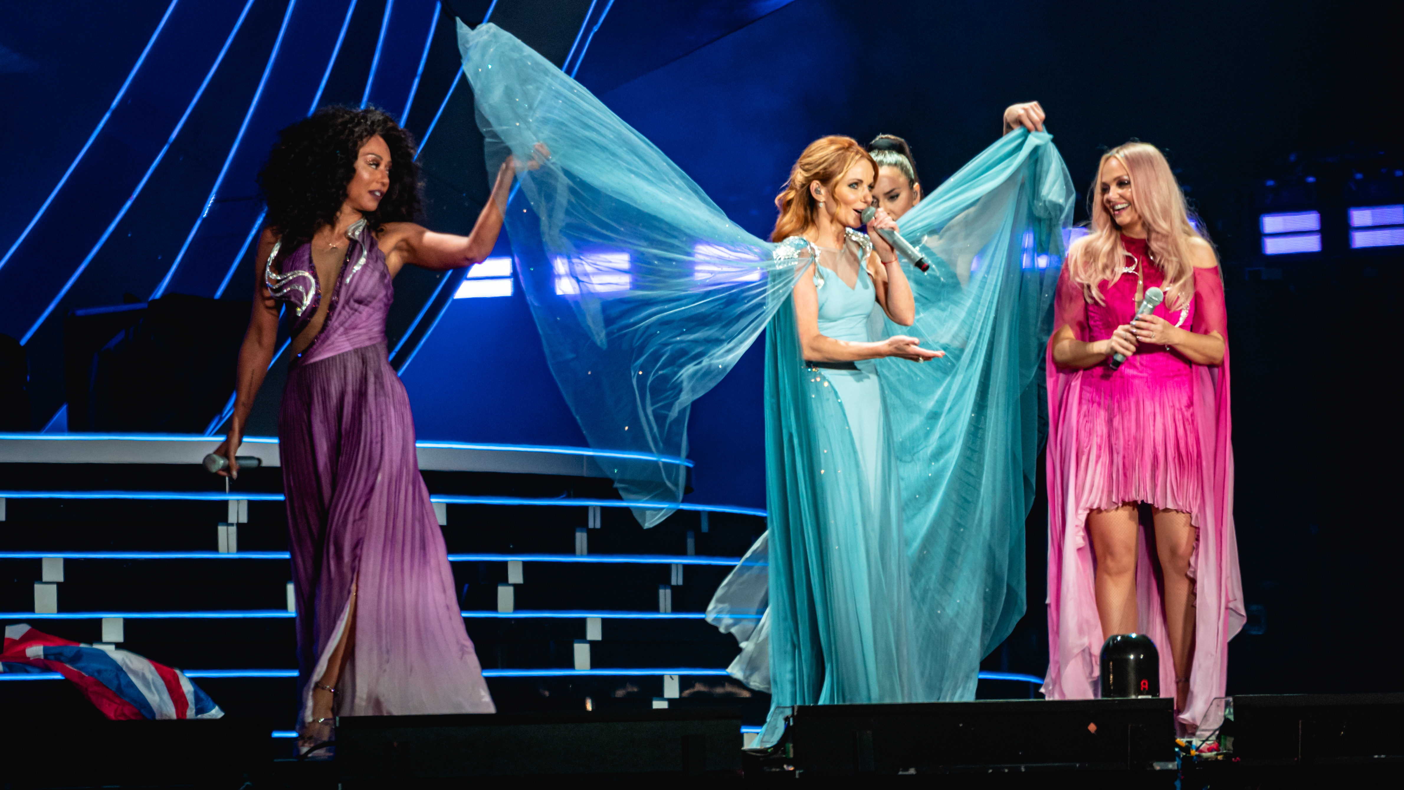 SpiceGirlWembley150619-68